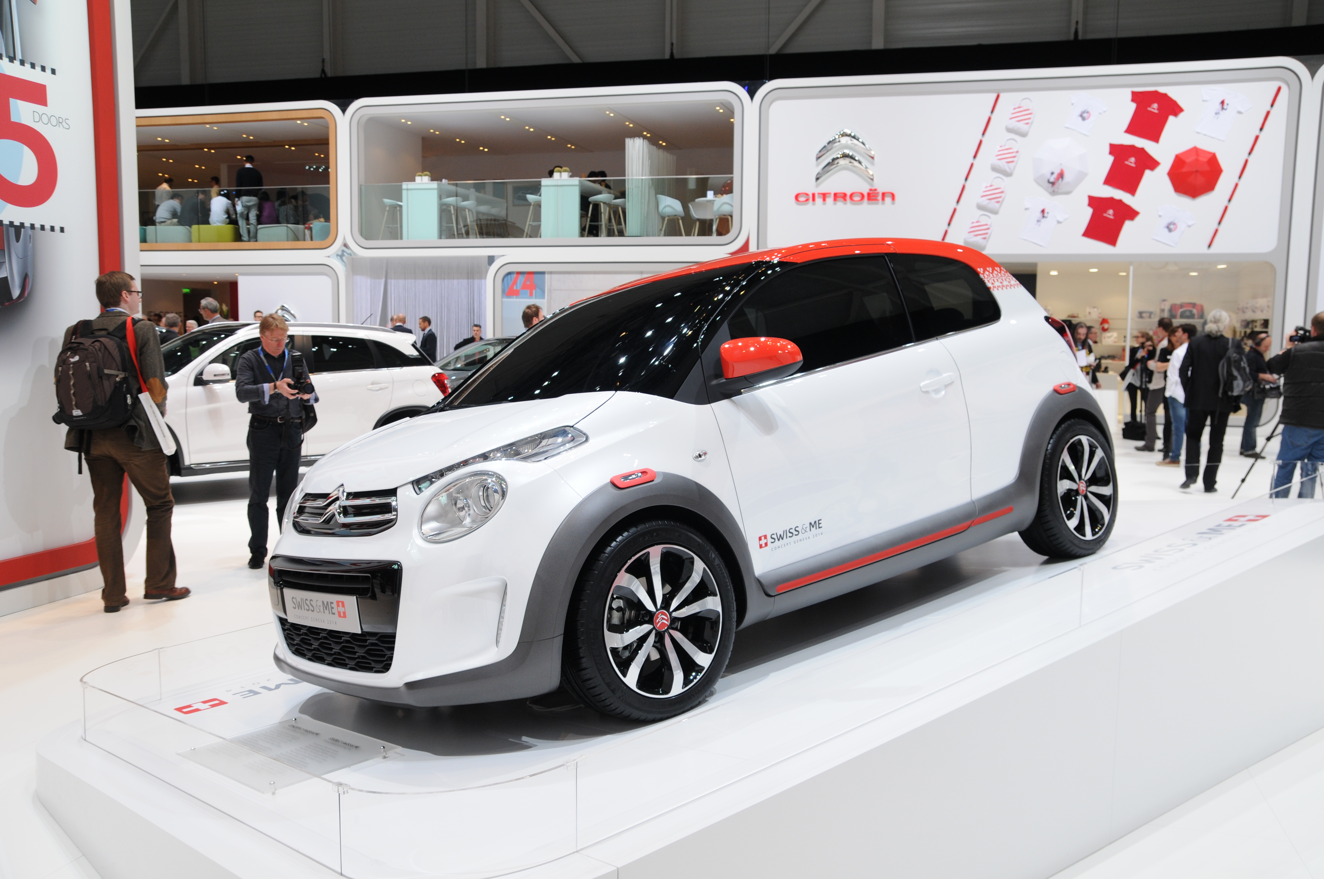 Geneva Motor Show 2014 (photo taken on the first press day). Concept Car Citroën SWISS&ME.